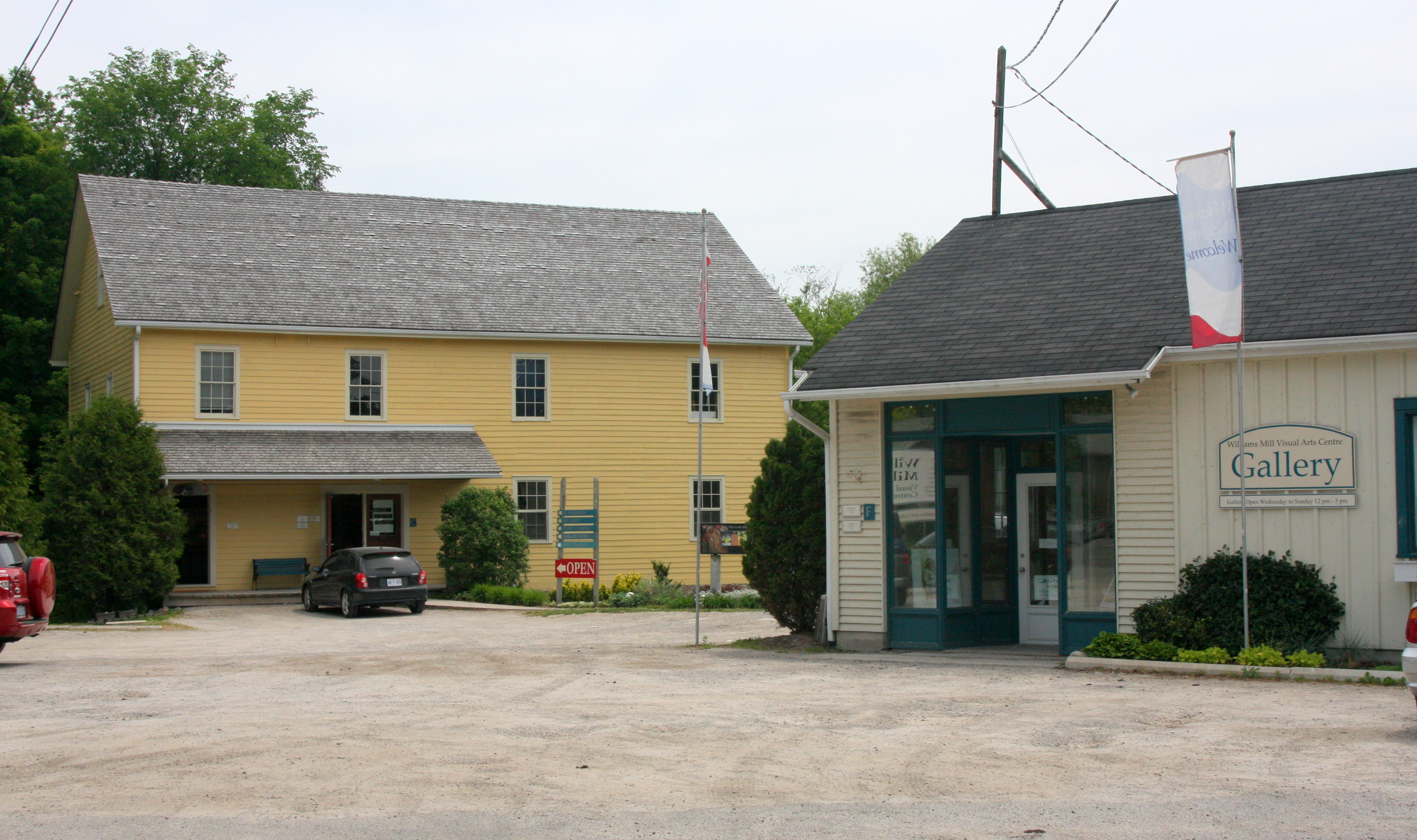 Williams Mill Arts Centre, Glen Williams, Ontario, Canada. c. 1852 / 1901; Village saw mill built by Williams family and first hydroelectric plant. One of the first buildings in Glen Williams to be designated a historic site was the original Williams saw mill. After he lost his flour mill to fire in 1890, Joseph Williams converted his saw mill into a hosiery factory and electric power plant. In 1898 he sold out and moved. In 1901, a local company, the Georgetown Electric Power and Light, built a generating plant on the ruins of the burned-out flour mill. This closed in 1913 with the coming of Ontario Hydro. In 1926 the old saw mill and hydro plant became "Apple Products", a seasonal fruit processing plant run by the Lindner family. Since its closure by Reinhart Vinegars in 1985, Douglas Brock has restored it and it serves as the Williams Mill Arts Centre.